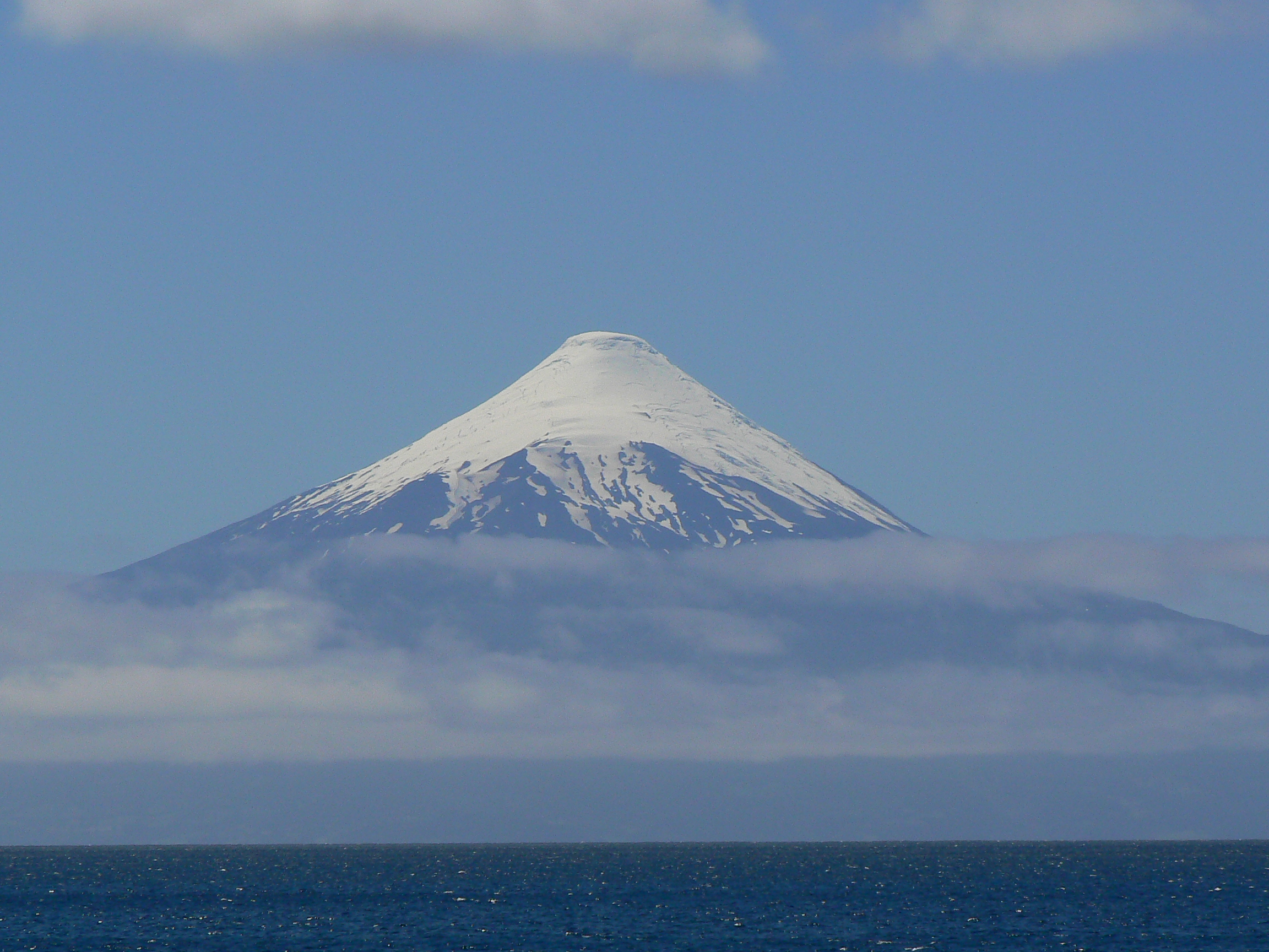 A view of the Osorno Volcano from Llanquihue lake near the city of Frutillar in Chile.